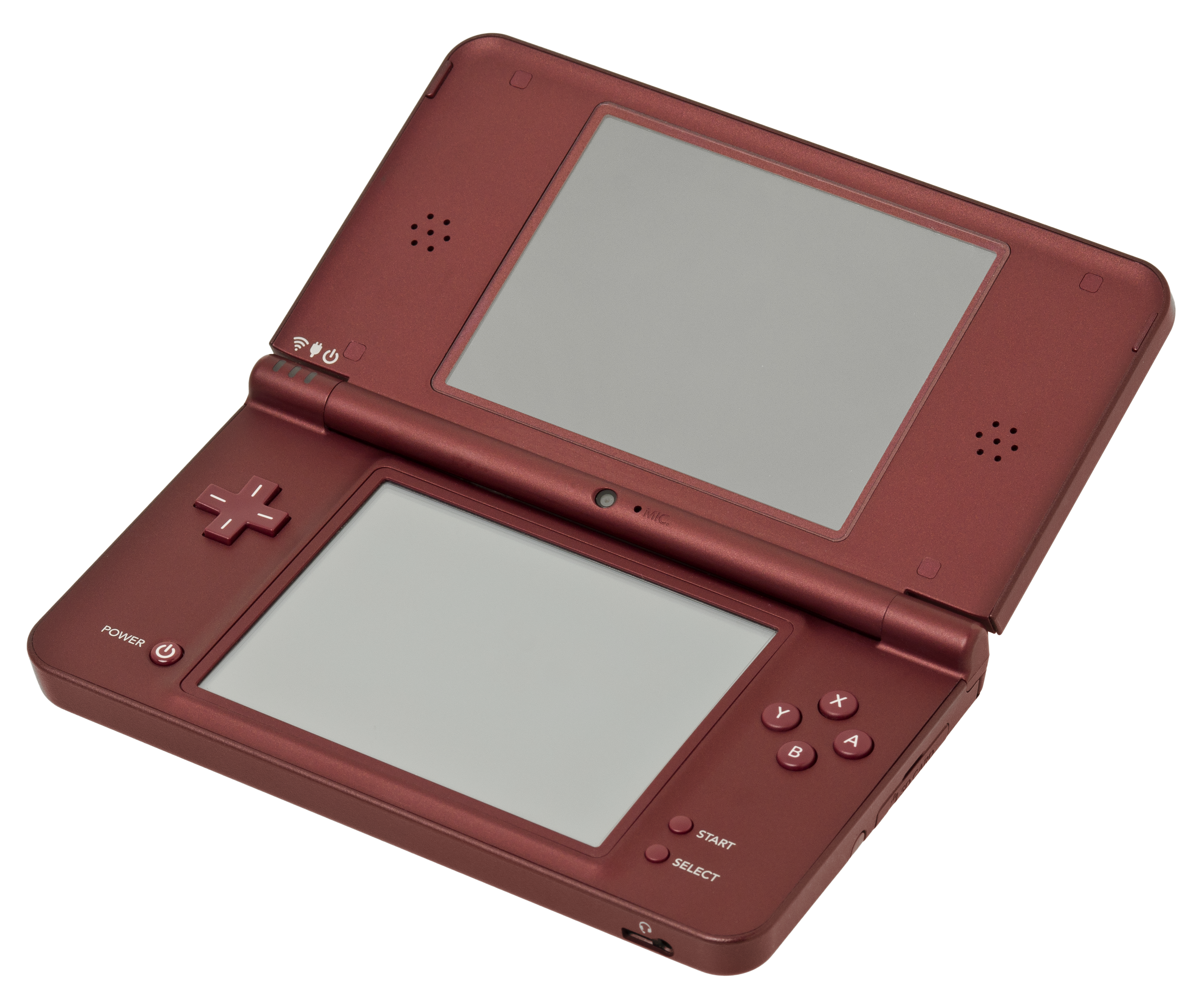 The Nintendo DSi XL in burgundy.